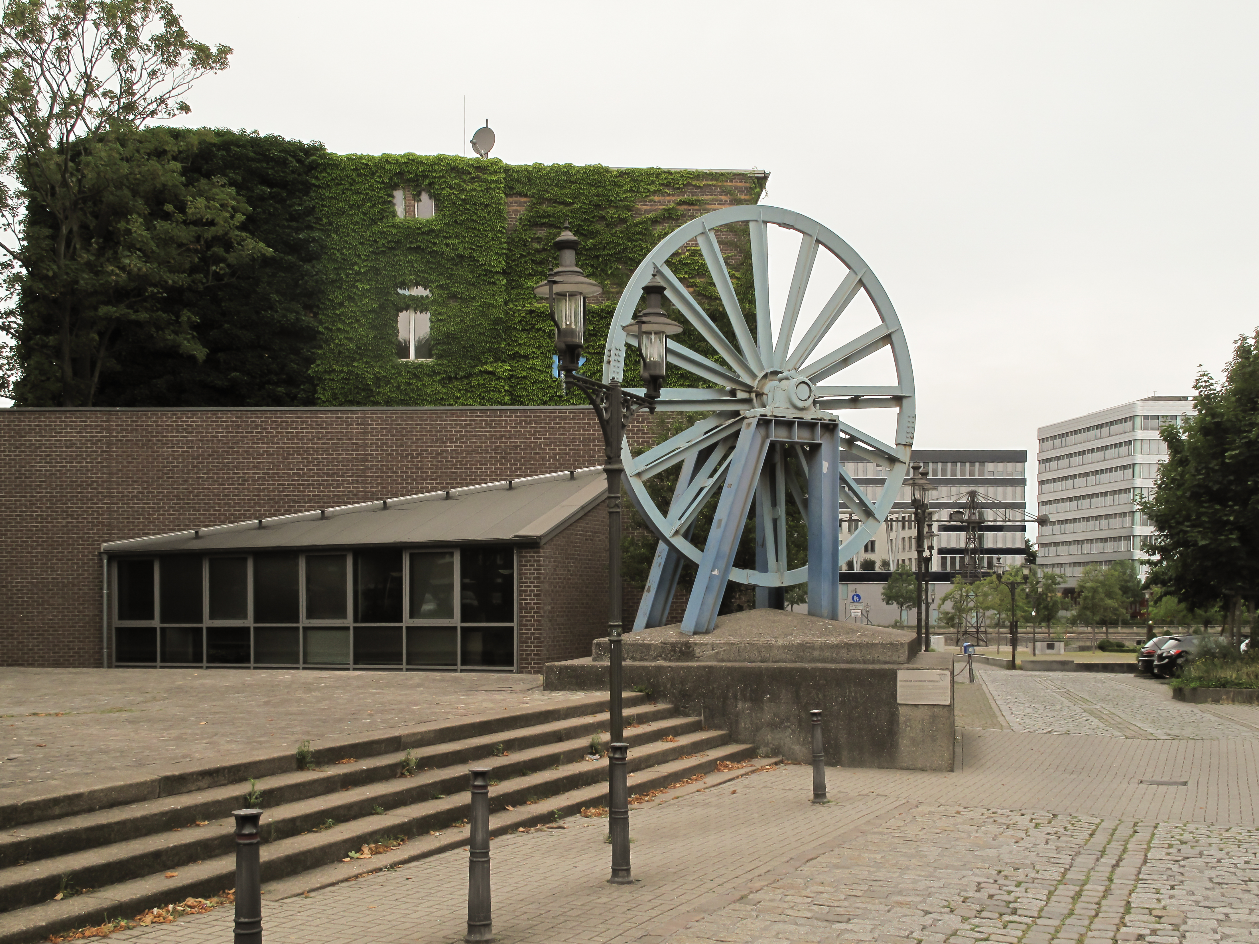 Duisburg, former industry: Seilscheibe der Schachtanlage Rheinpreussen